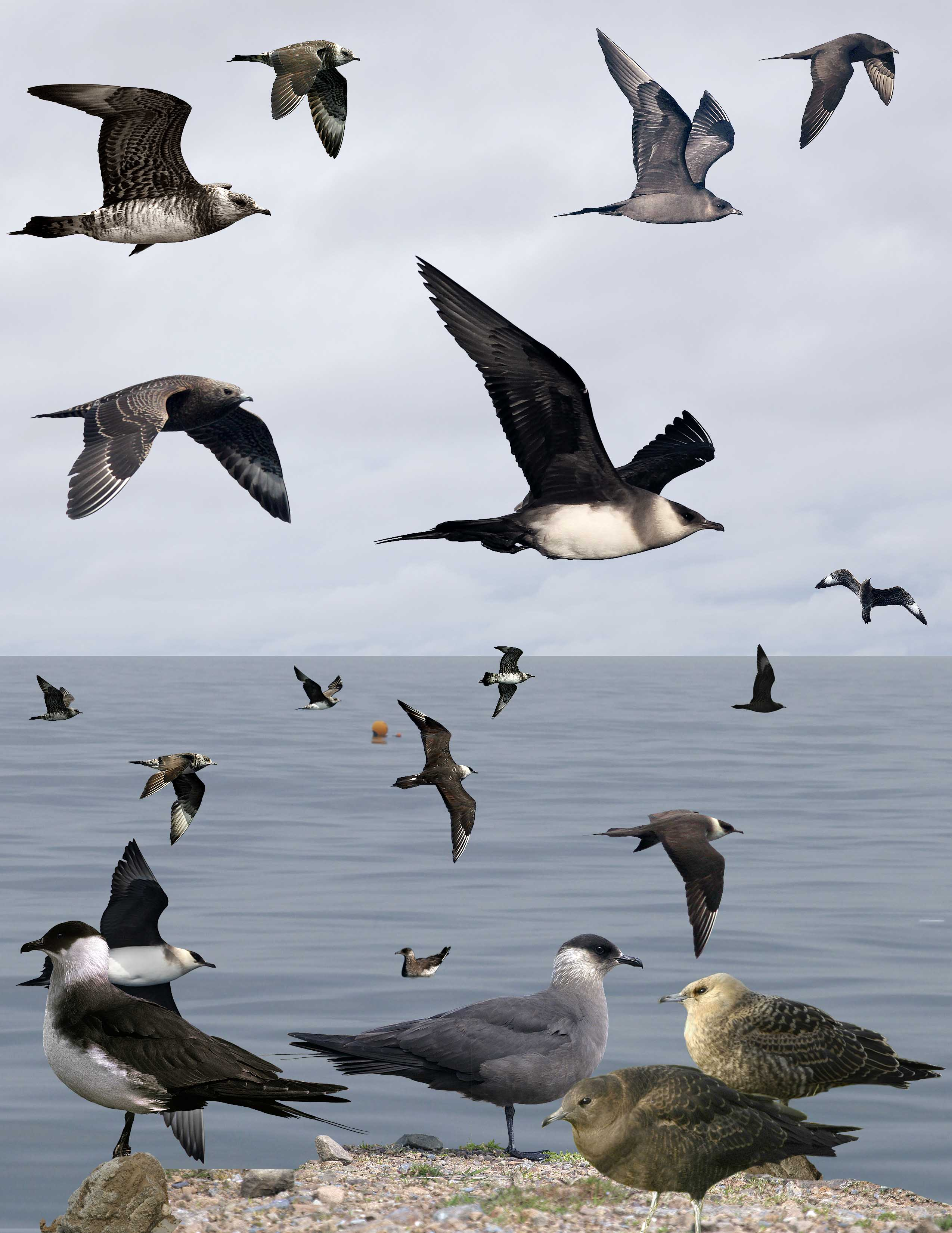 Arctic Skua from the Crossley ID Guide Britain and Ireland